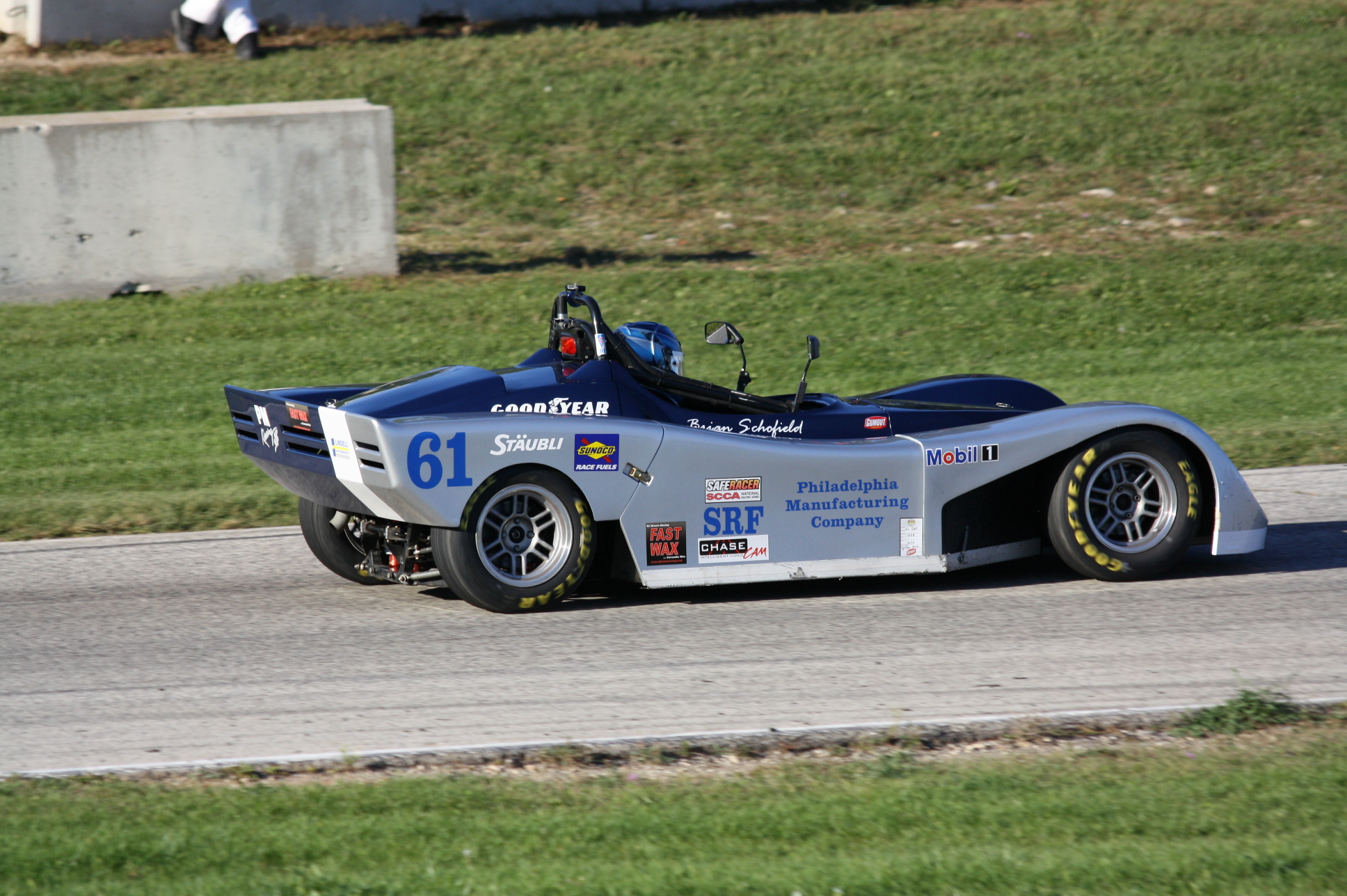 The SRF winner #61 Brian Schofield at the 2010 SCCA National Championship Runoffs.